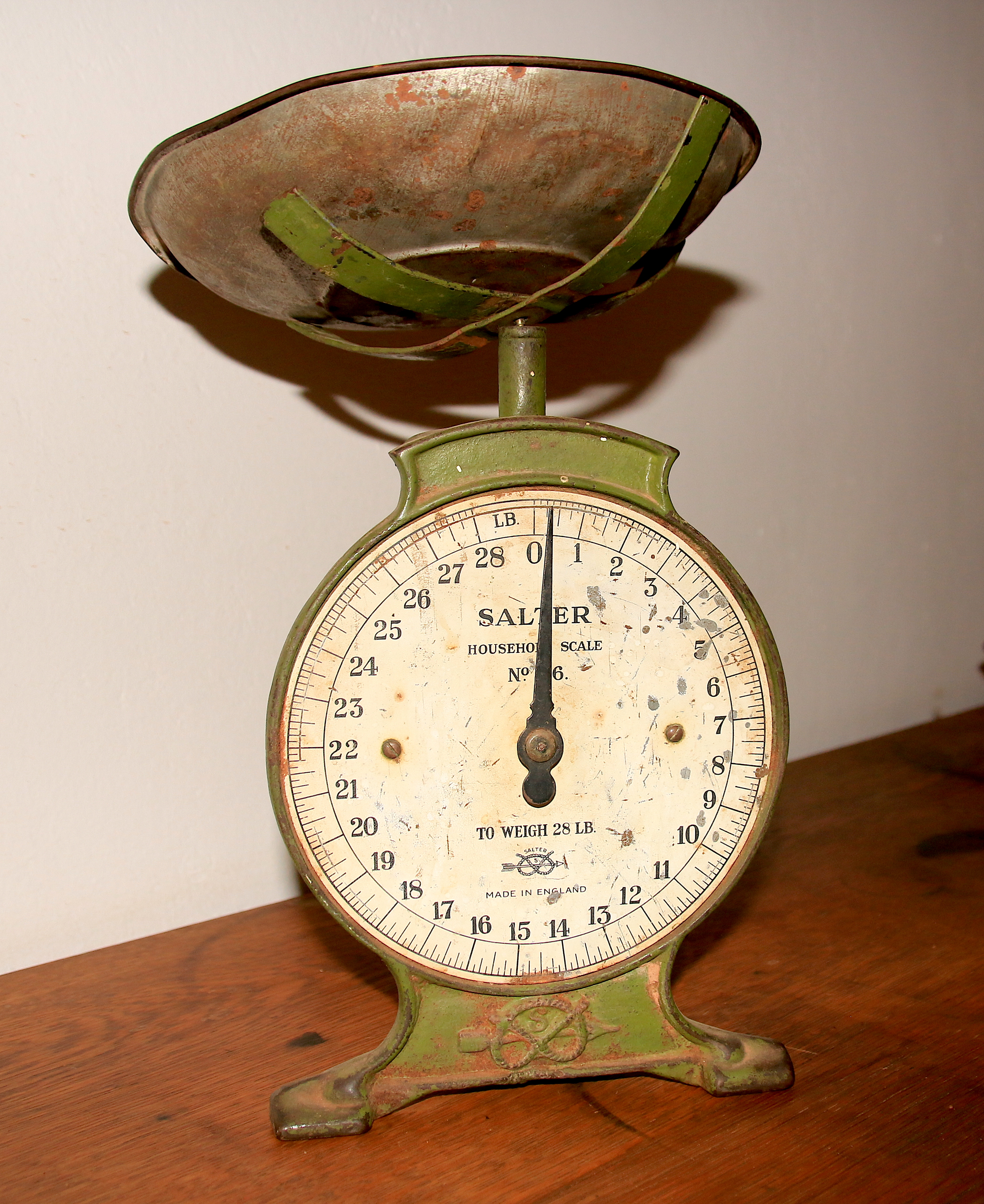 Salter Scale in the Duwisib Castle